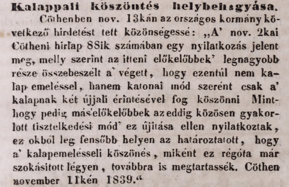 Text about the hat